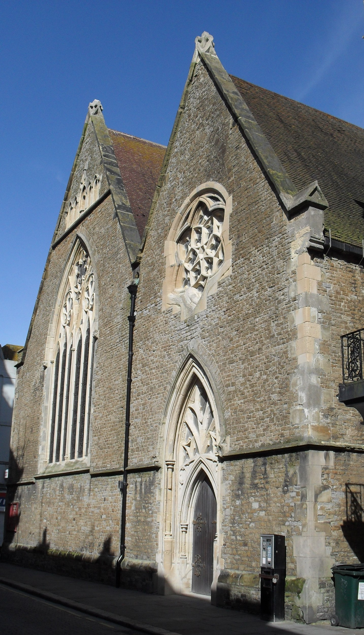 West end of Holy Trinity Church, Robertson Street, Hastings, East Sussex, England. Built between 1857 and 1862 by S.S. Teulon on a difficult site in the town centre. The interior is opulently decorated. Listed at Grade II* by English Heritage (IoE Code 294055)